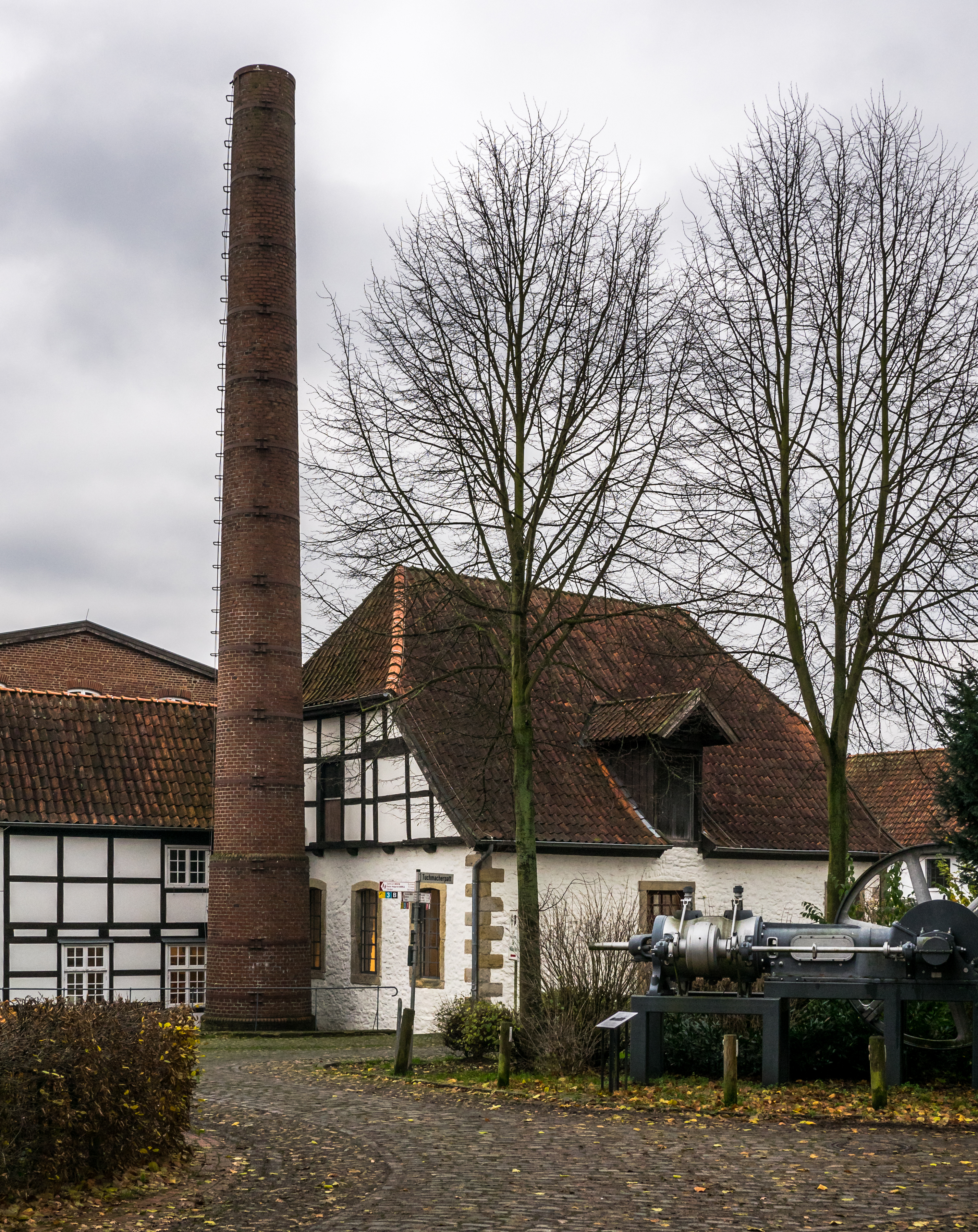 Textile museum in Bramsche. Osnabrück Land, Lower Saxony, Germany